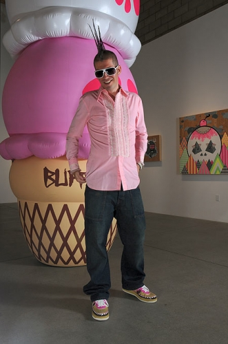 Portrait of the Los Angeles street artist Buff Monster, standing in front of his own work.